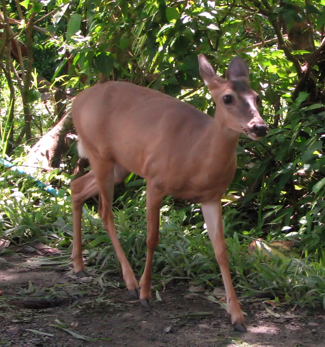 Central American White-tailed Deer (Odocoileus virginianus truei), Manuel Antonio Park, Costa Rica